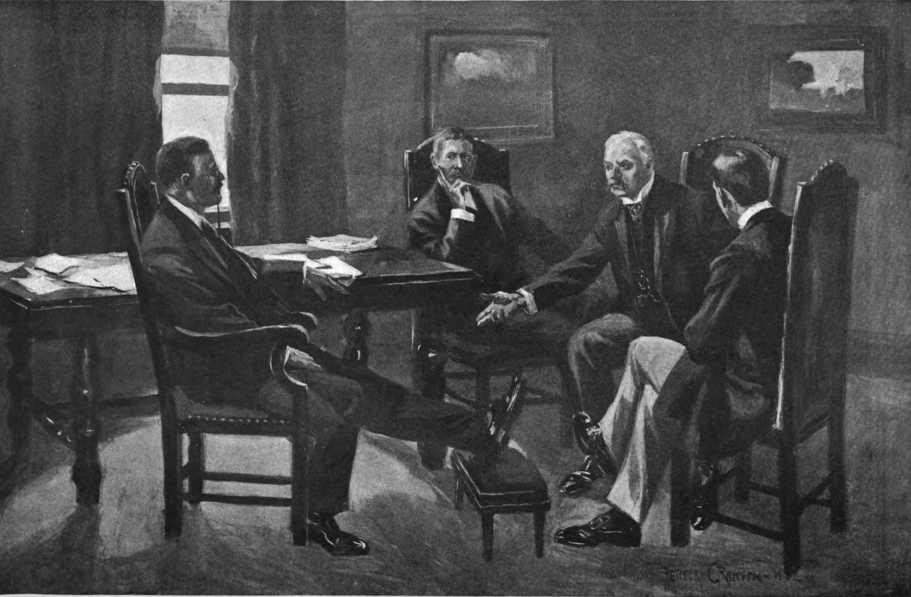 Theodore Roosevelt and J.P. Morgan have a meeting where they come up with a resolution for the Anthracite strike of 1902. In the room, is also sitting Elihu Root.